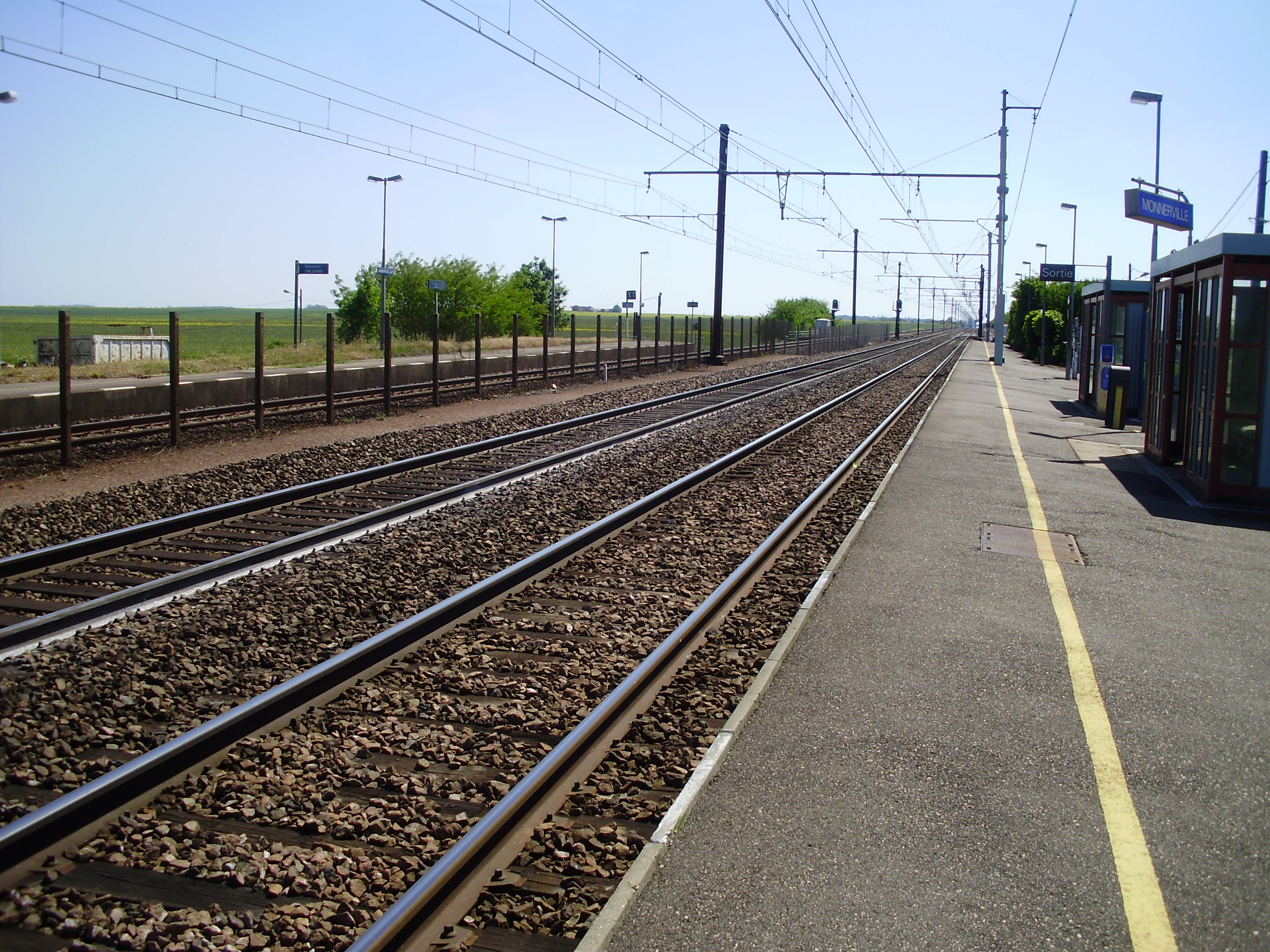 Monnerville station, Essonne, France (platform to Paris on right side, view towards Orléans)